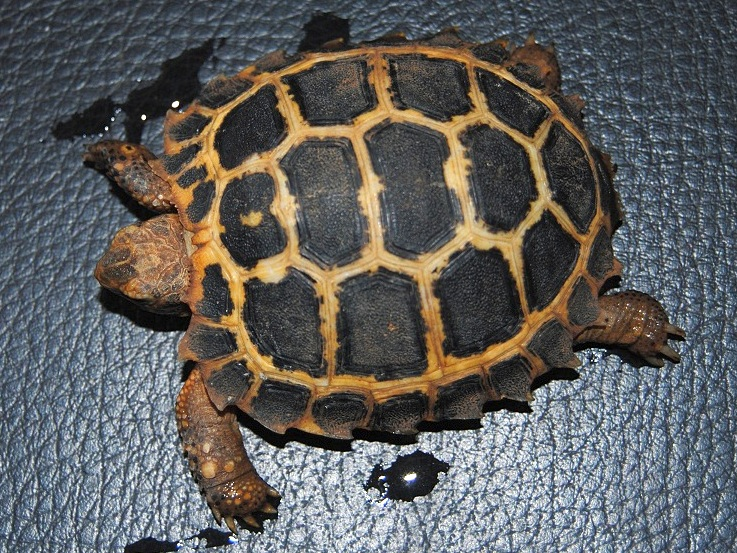 Image of Baby Indotestudo Forstenii Tortoise